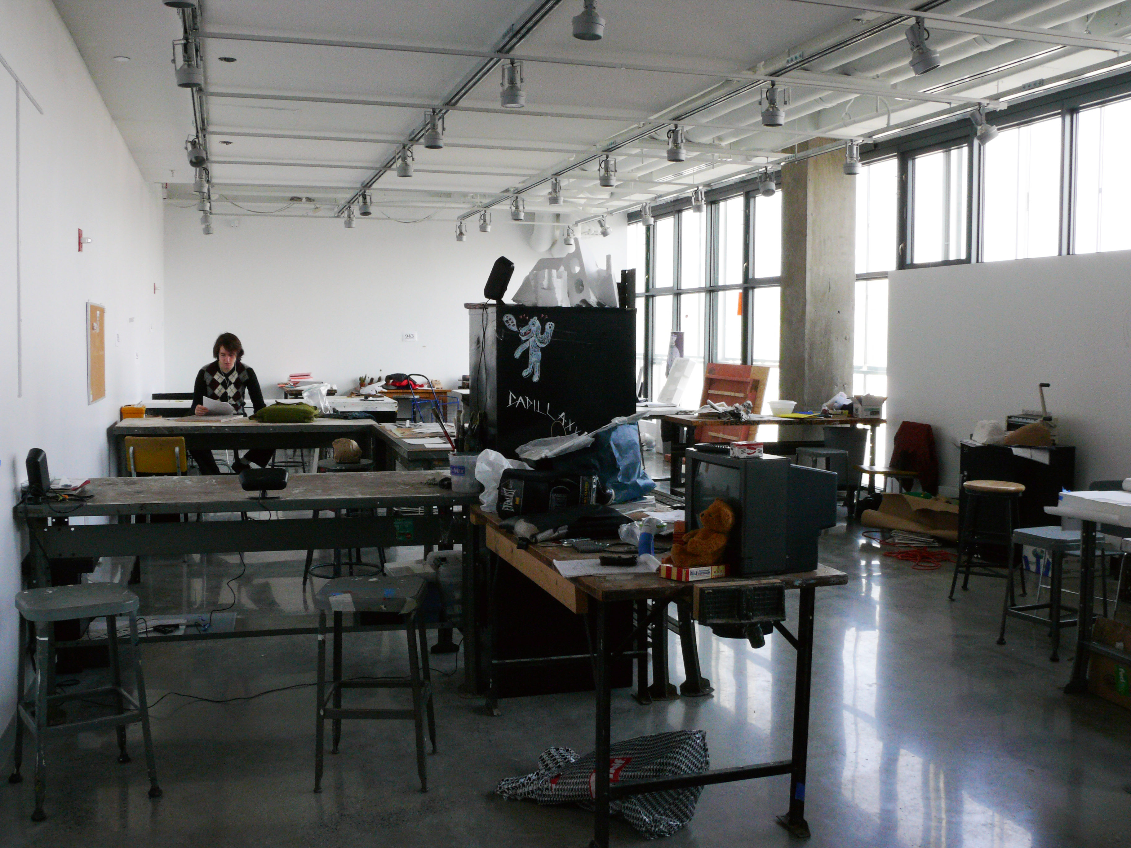 Photo of personal studio workspaces in the Cooper Union New Academic Building used by students.